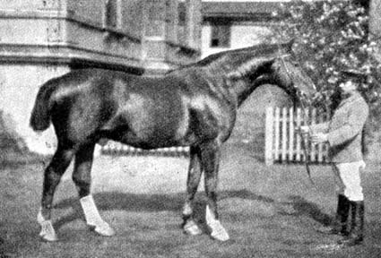 Alnok was a chestnut Hanoverian stallion born in 1888, sired by Adeptus xx and out of Nora. He died in 1913.